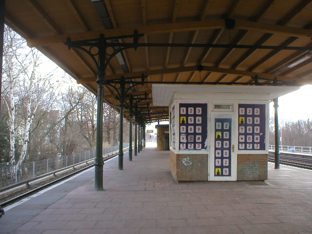 Platform of Berlin's S-Bahn station Karlshorst